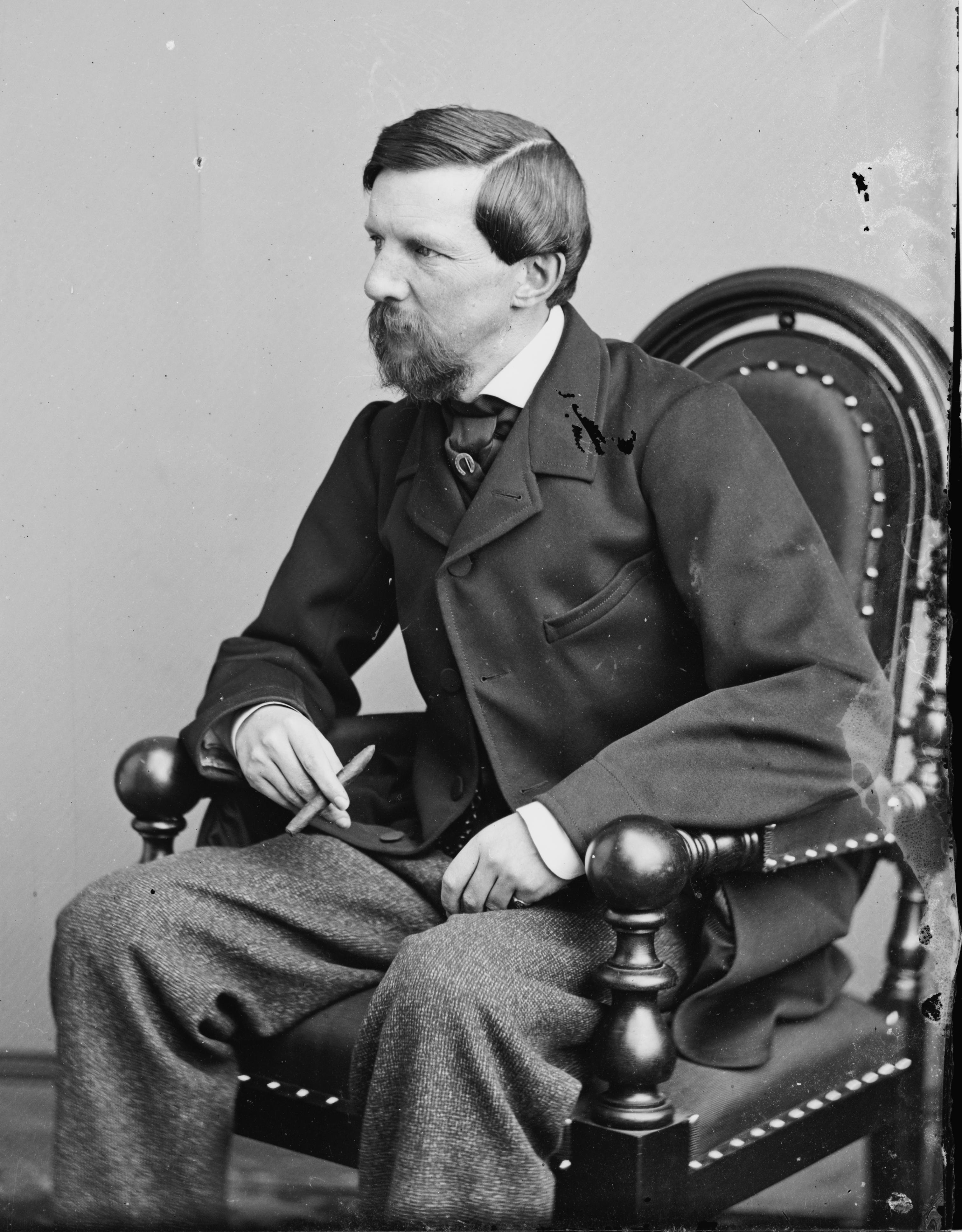 Charles Astor Bristed. Library of Congress description: "C. Astor Bristed"